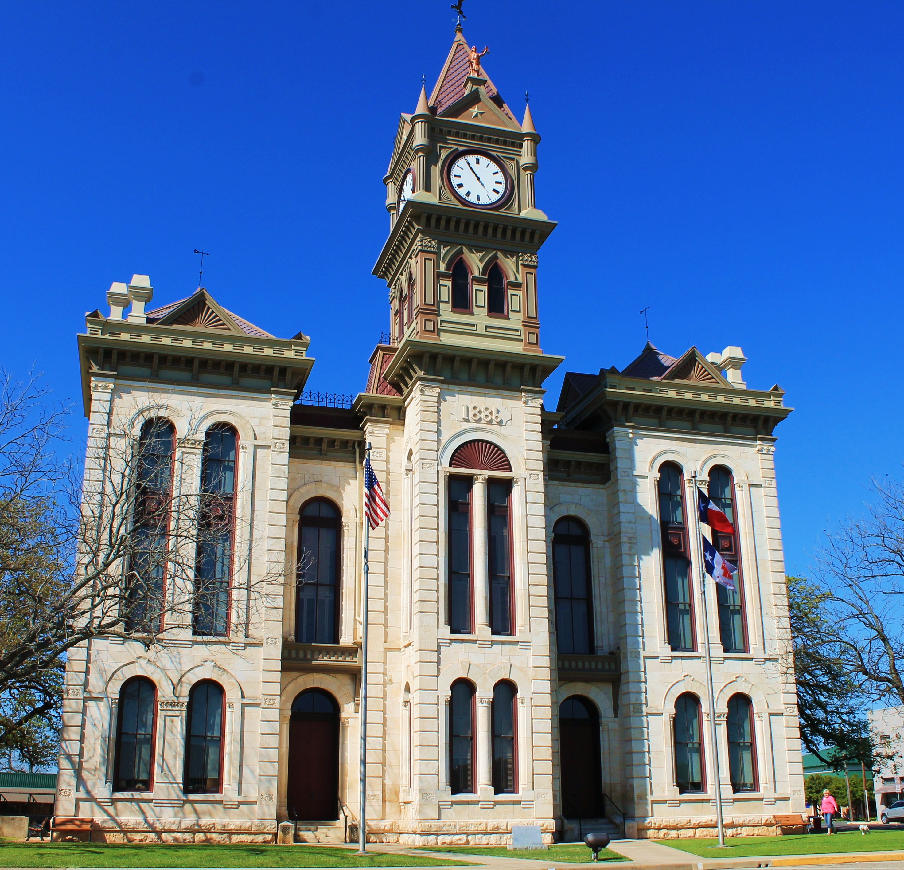 Bosque County Courthouse